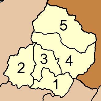 Map of Kapong district, Phang Nga province, Thailand, with the communes (tambon) numbered. Kapong (กะปง) Tha Na (ท่านา) Mo (เหมาะ) Hen (เหล) Rommani (รมณีย์)